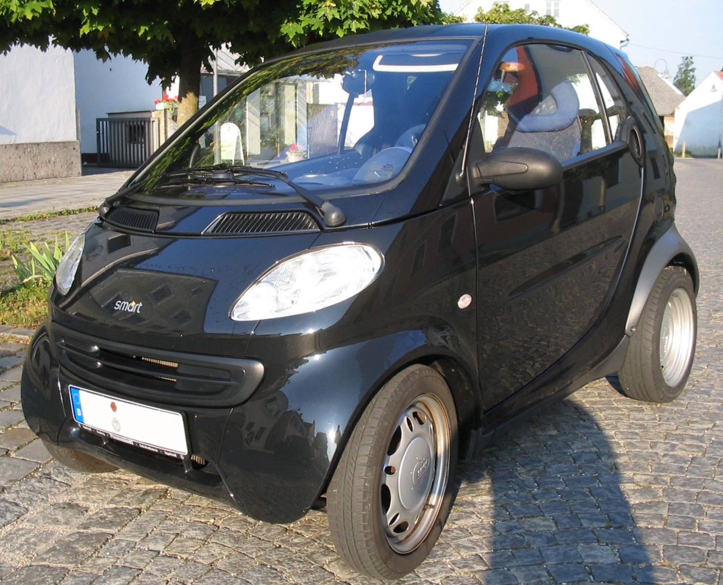 Summary Bildbeschreibung: smart city-coupé, 1. Generation Quelle: selbst fotografiert Fotograf: Benutzer:Eppasandas Datum: Juli 2000